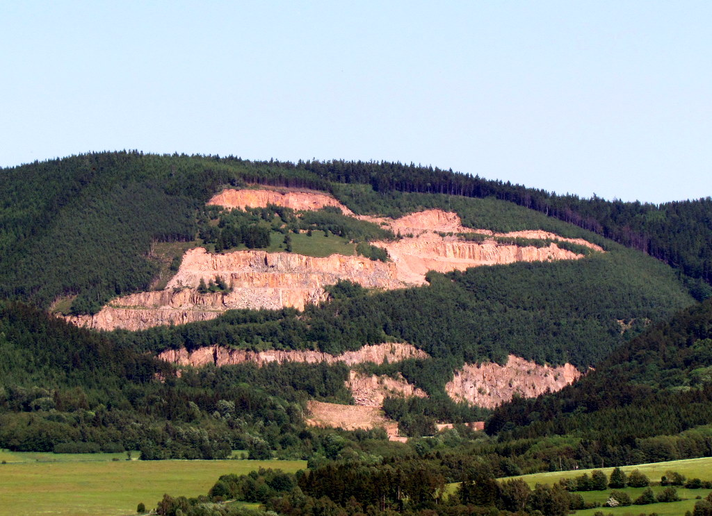 Quarry near Královec, Central Sudetes, Czech Republic, exposing earliest Permian rhyolite and trachydacite/trachyandesite